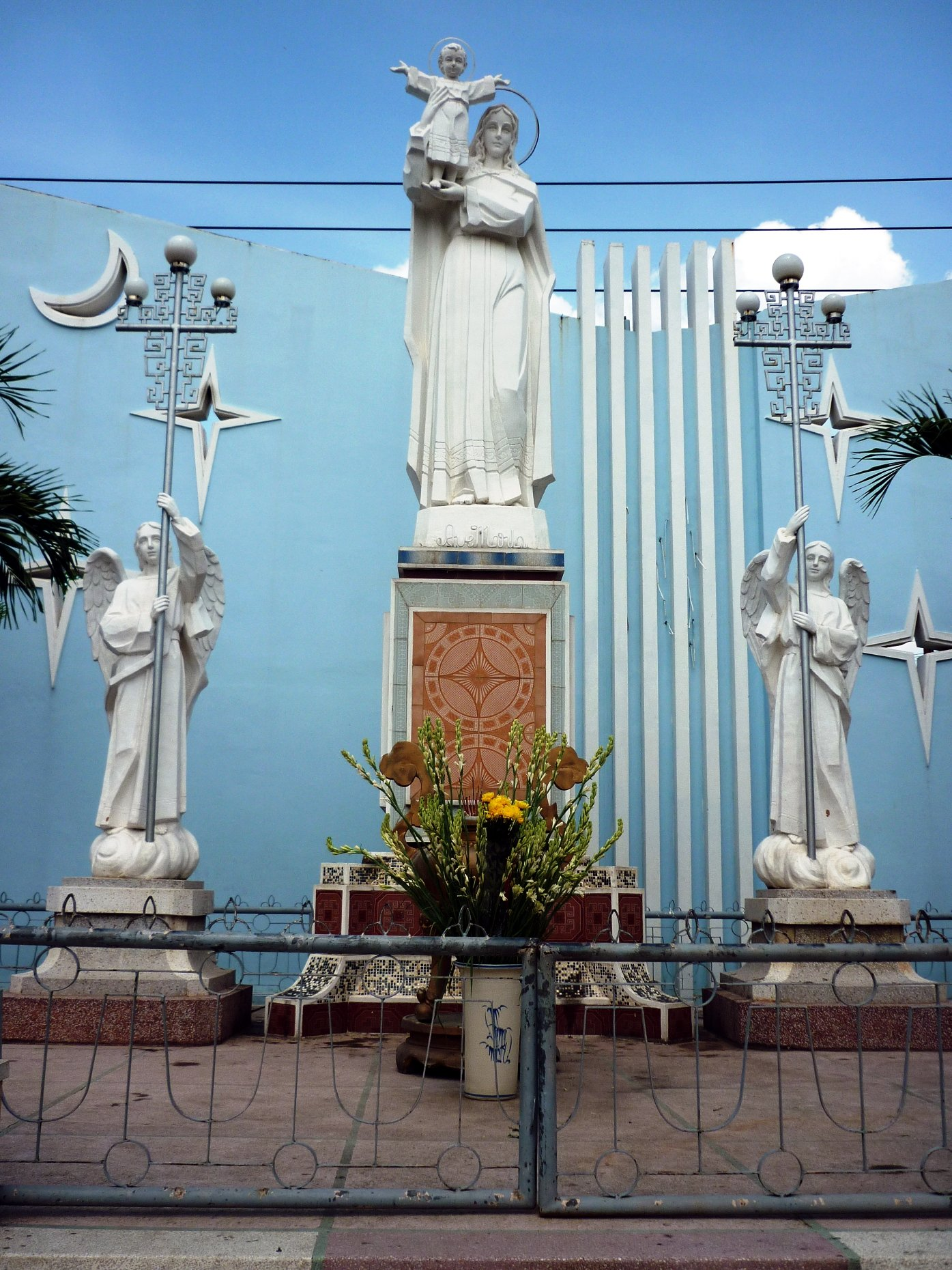 Statue of Mary and baby Jesus, with two angels in the Church of Bui, bien Hoa, Dong Nai, Vietnam